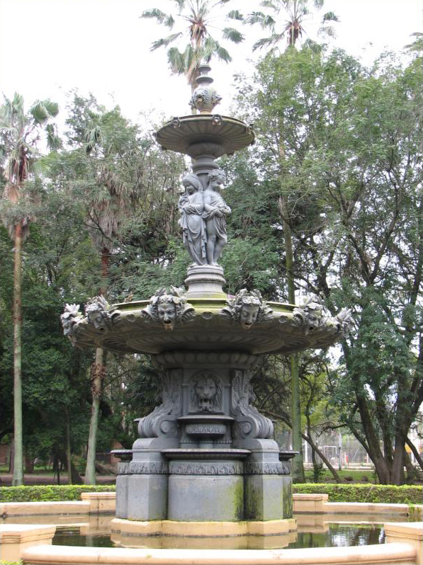 Fountain from Brasil.